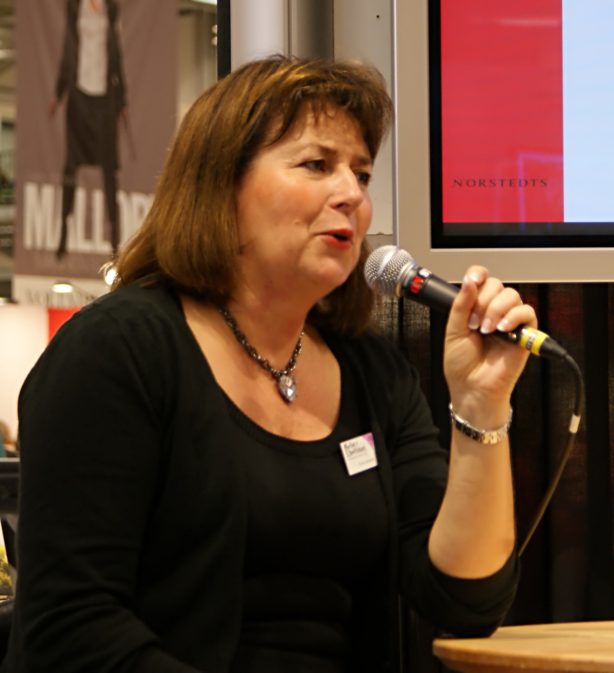 Anna Jansson, Swedish writer in Gothenburg 2008.